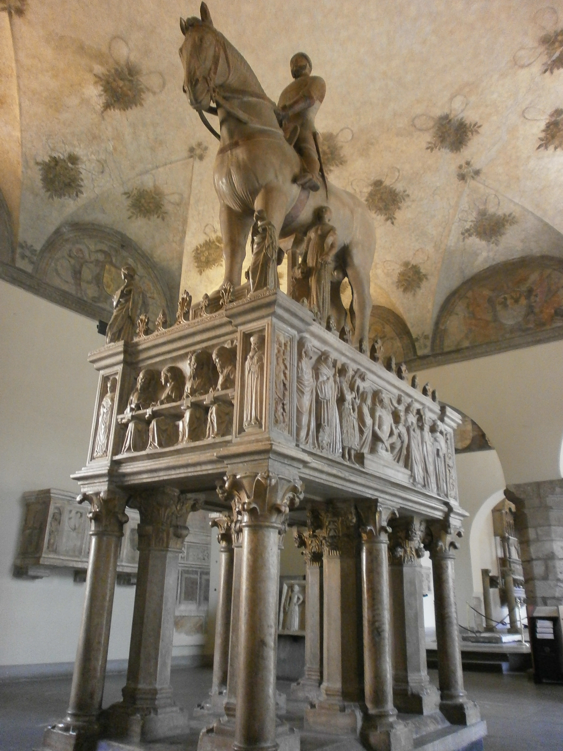 The Museum of Ancient Art 1 - Funerary Monument to Bernabò Visconti, 14th century